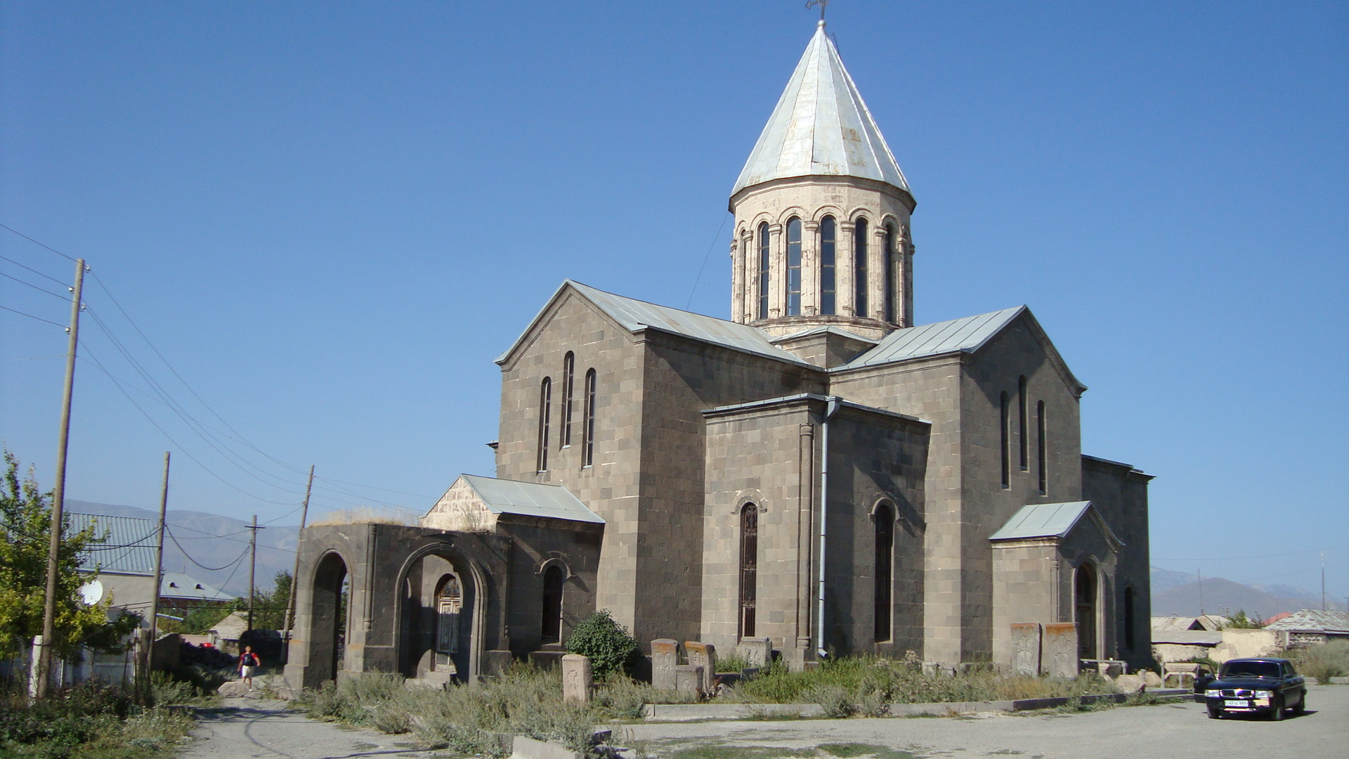 A church in Vardenis. Location: Vardenis, Gegharkunik marz (region), Republic of Armenia.